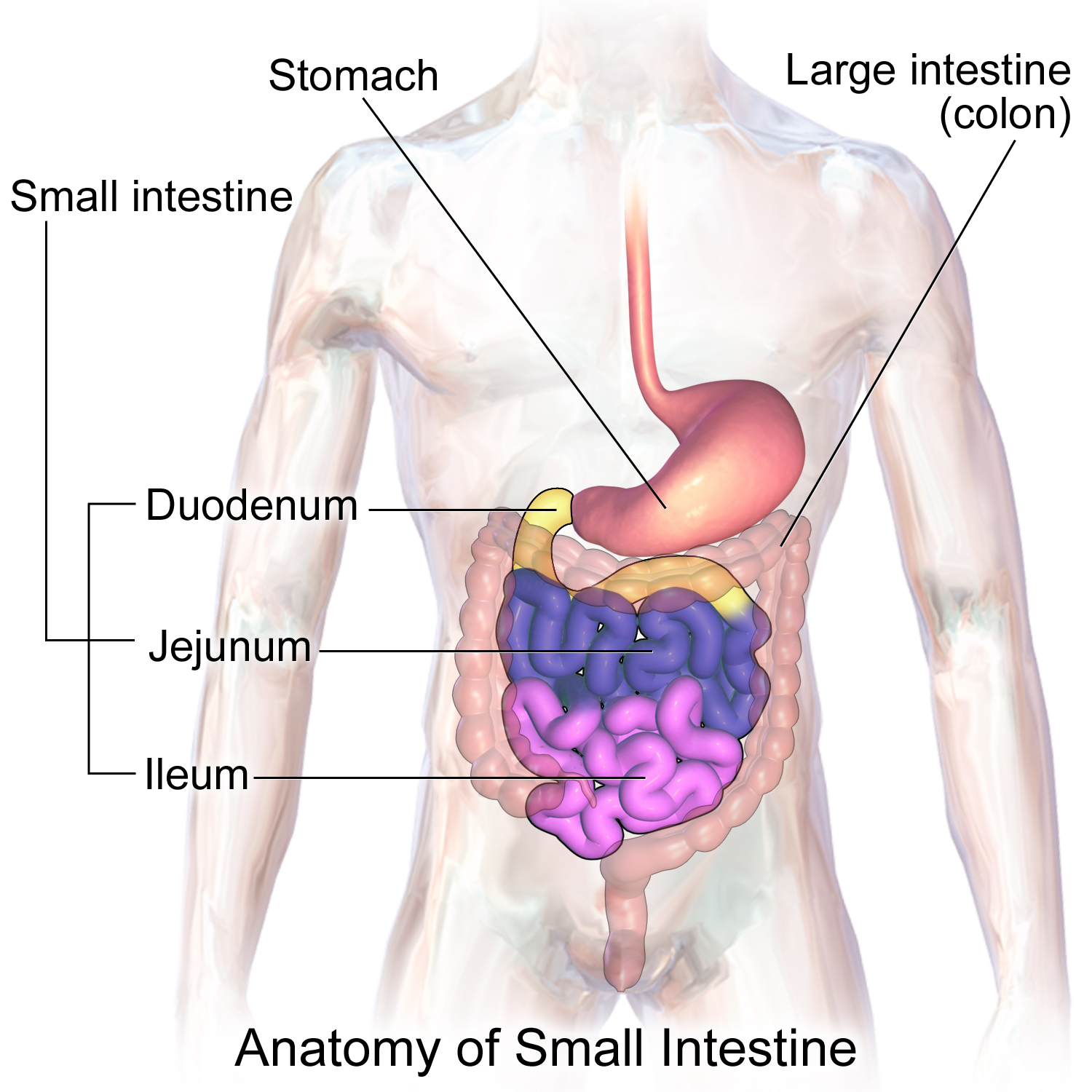 Small Intestine. See a full animation of this medical topic.